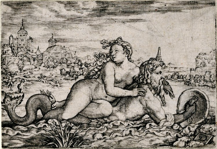 After Albrecht Dürer. Formerly attributed to Georg Pencz. Date 1530-1580. Amymone carried away by a sea-god; copy after Dürer (Meder 66); the sea-god to right, Amymone on his back; landscape background with a town at left.